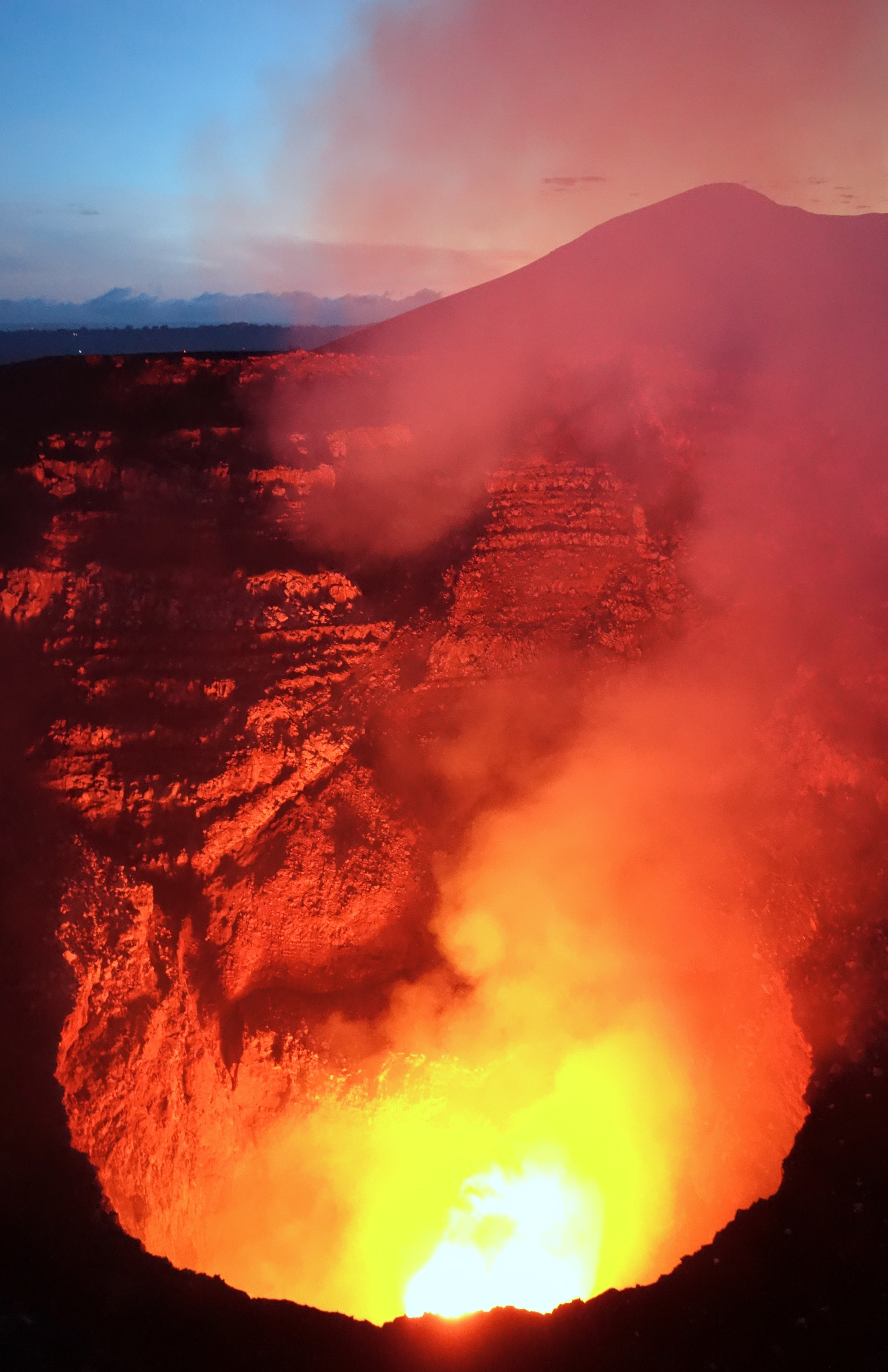 View of the active crater of Masaya